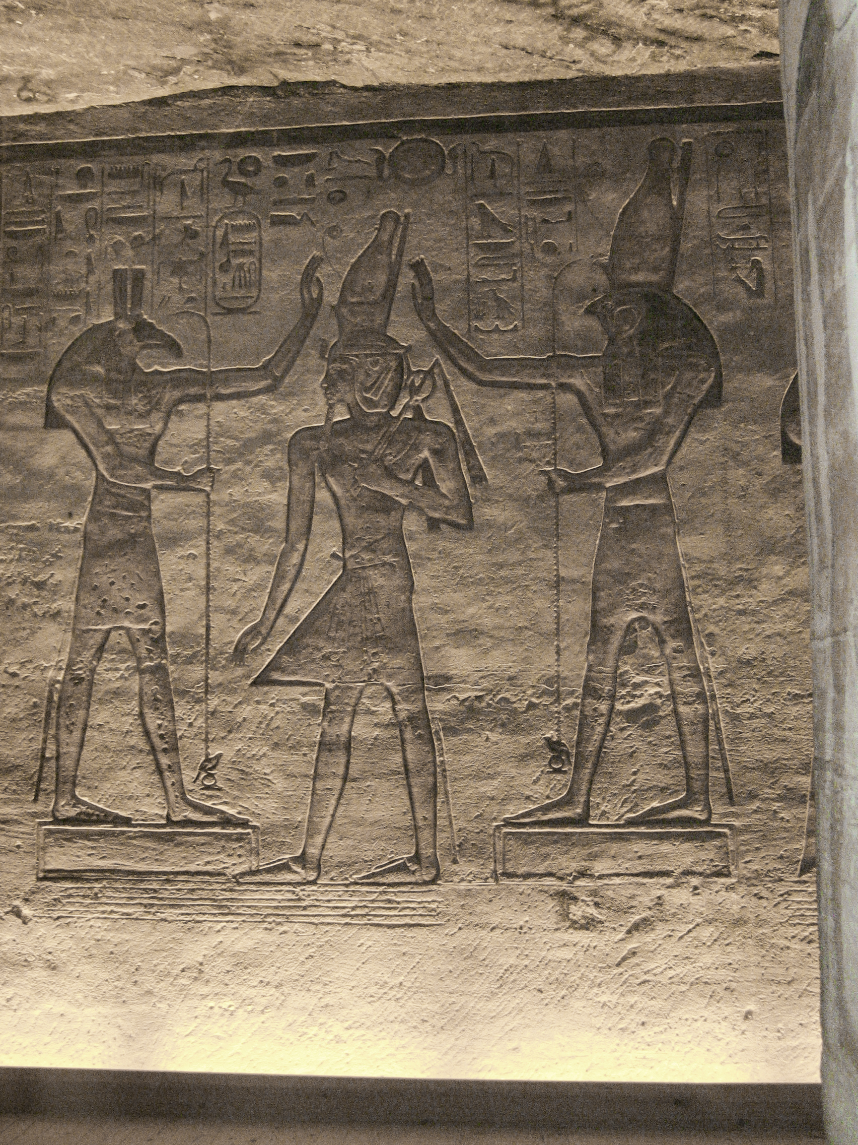 The gods Seth (left) and Horus (right) adoring Ramesses in the small temple at Abu Simbel